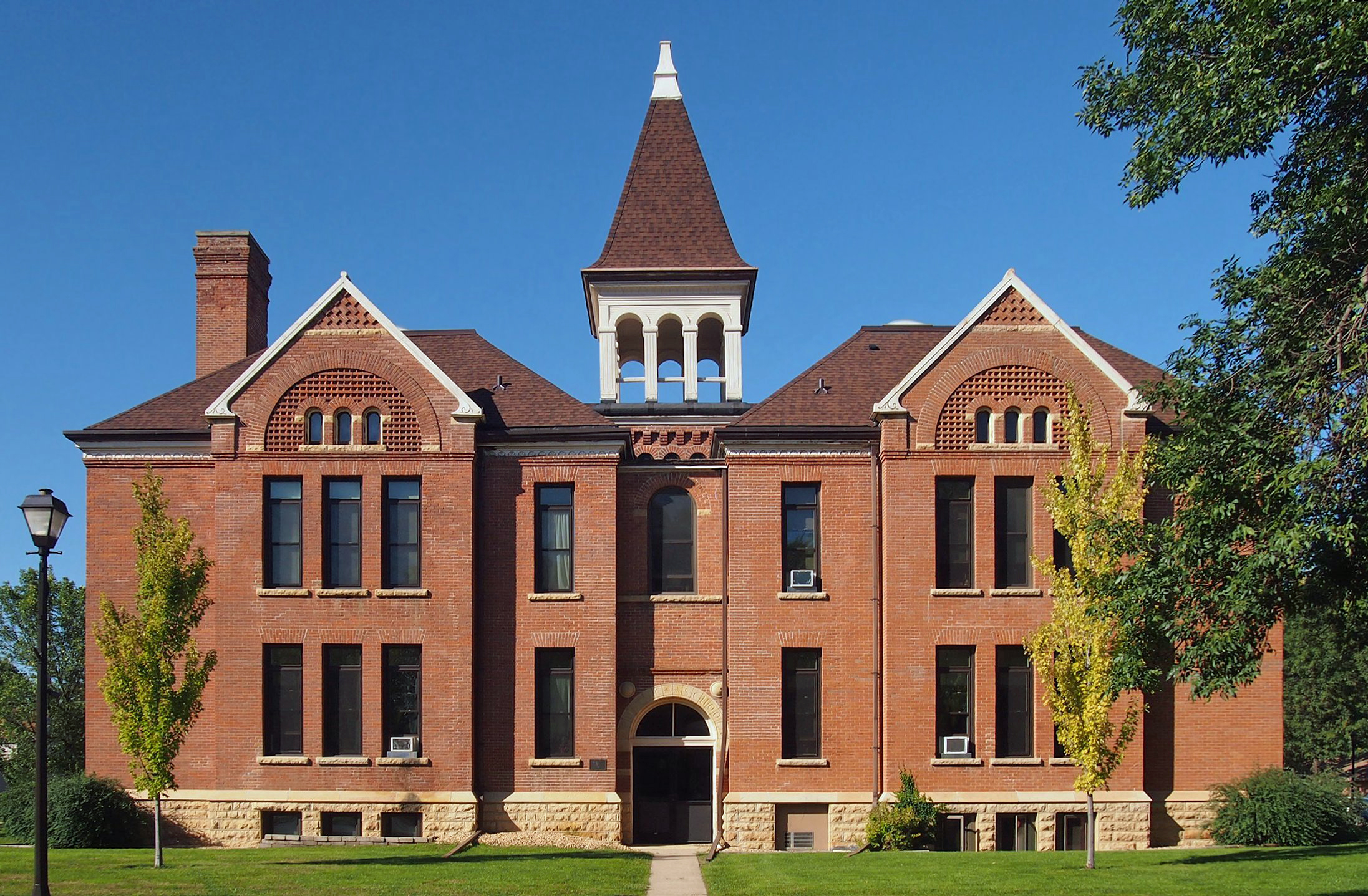 North Mankato Public School, 442 Belgrade Ave, North Mankato, Minnesota, USA. Viewed from the south.